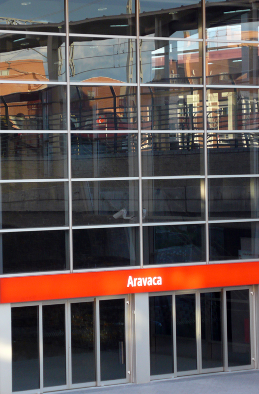 Aravaca railway station